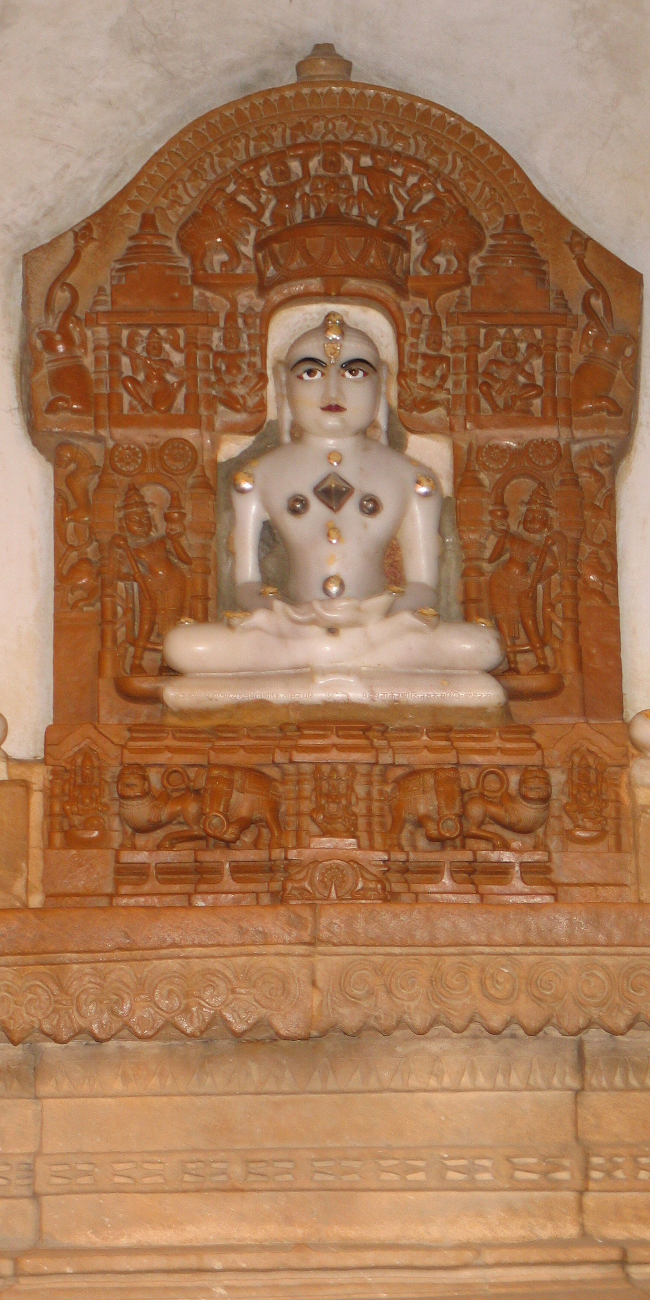 Jain temple tirthankara, Lodurva, Rajasthan, India